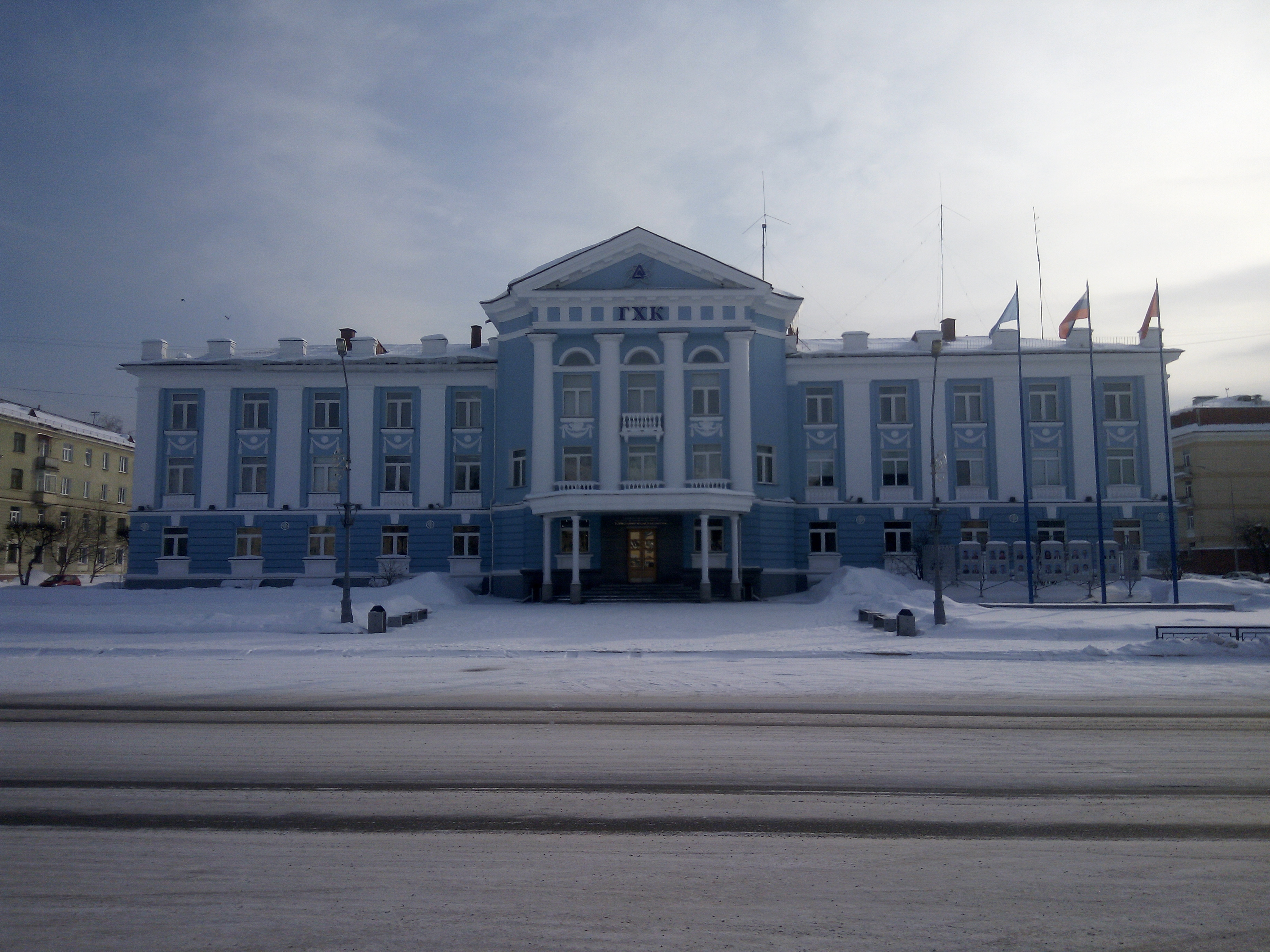 Mining and Chemical Combine headquarters, Zheleznogorsk, Russia